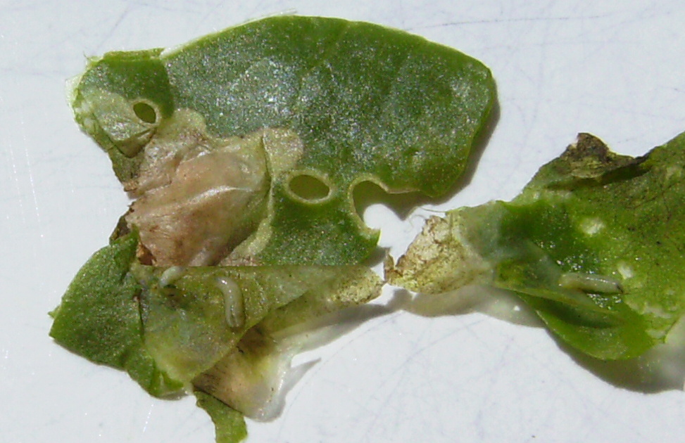 Pegomya betae caterìllars on Beta vulgaris, Castelltallat, Catalonia